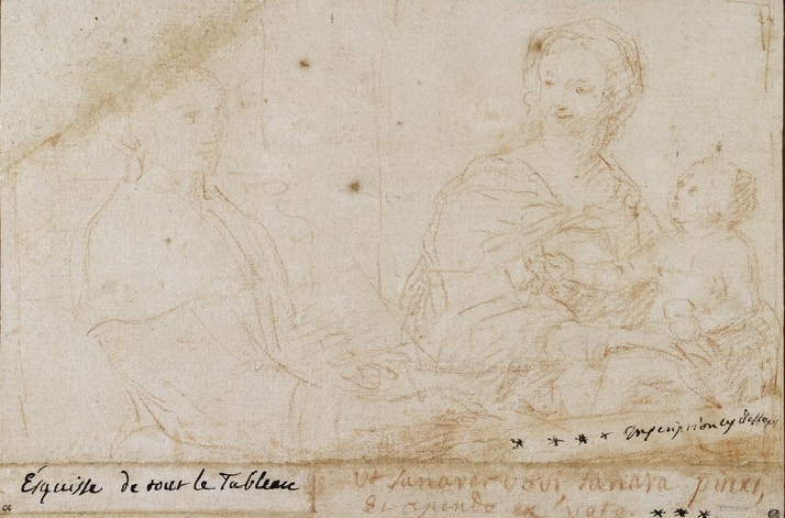 Claudine Bouzonnet Stella painting a Composition of the Virgin and Child